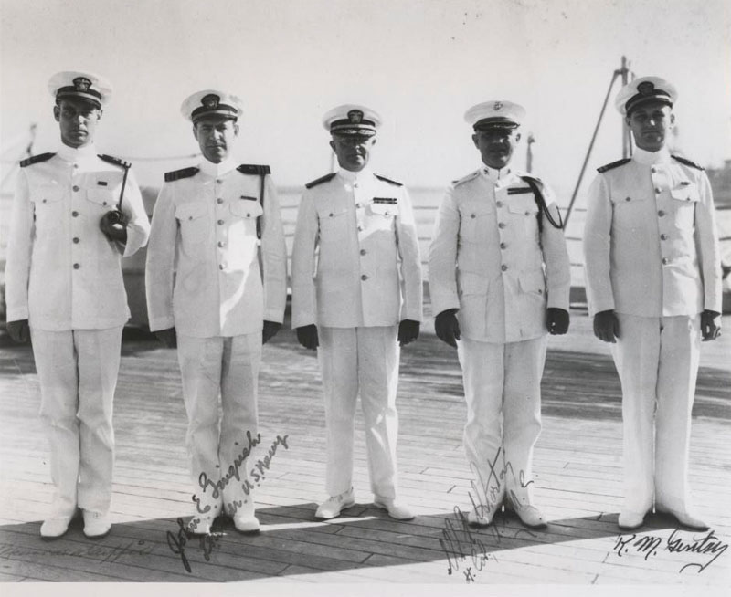 Rear Admiral John D. Wainwright, U.S. Navy, (COMBATDIV THREE) with members of his staff on USS Idaho (BB-42), c. 1938. (L-R): Lt. Monroe B. Duffill, USN; LCDR. John E. Gingrich, USN; Rear Admiral Wainwright, USN; LtCol. William A. Worton, USMC; Lt. K.M. Gentry, USN.